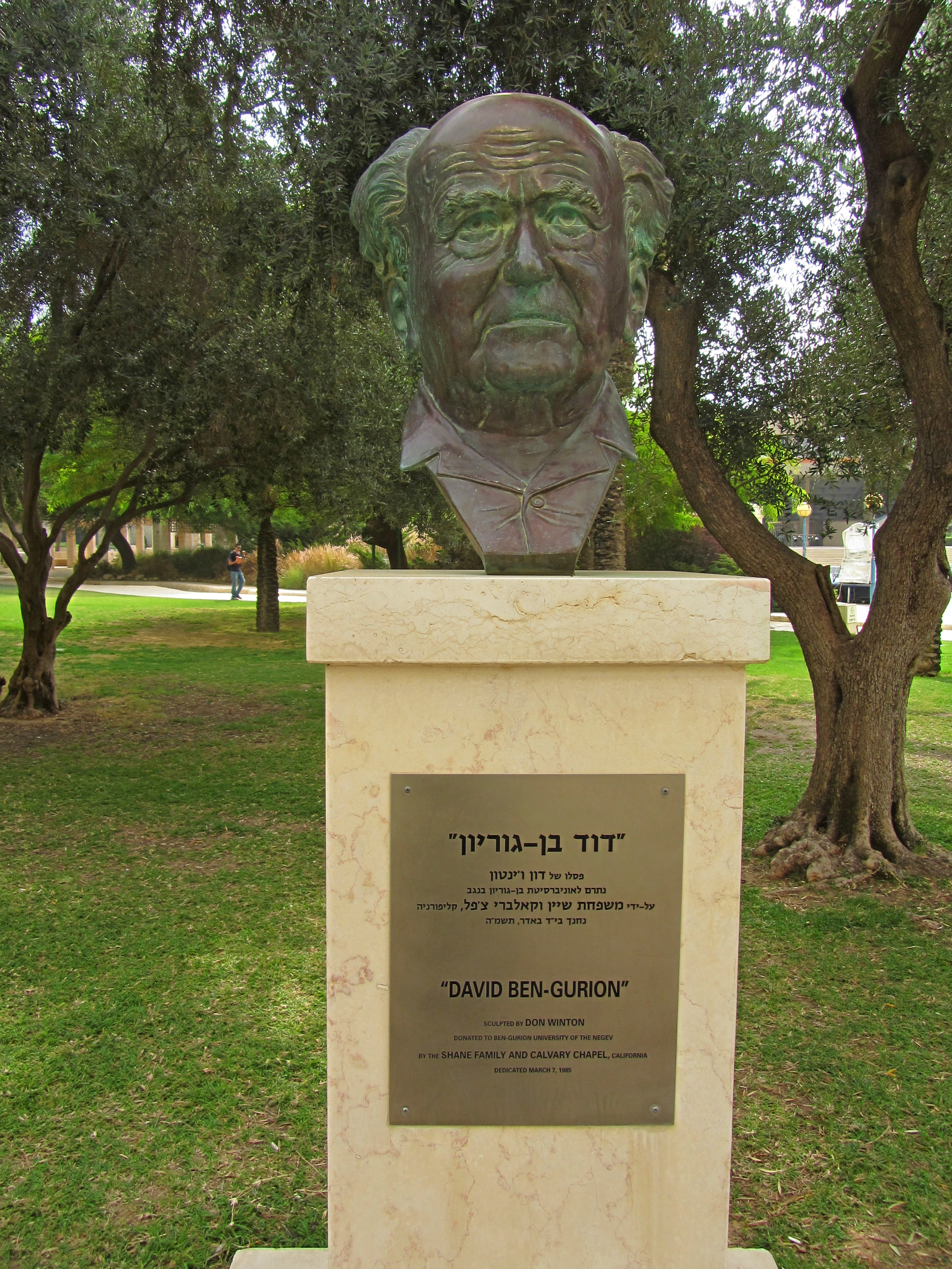 "David Ben-Gurion" Sculpted by Don Winton